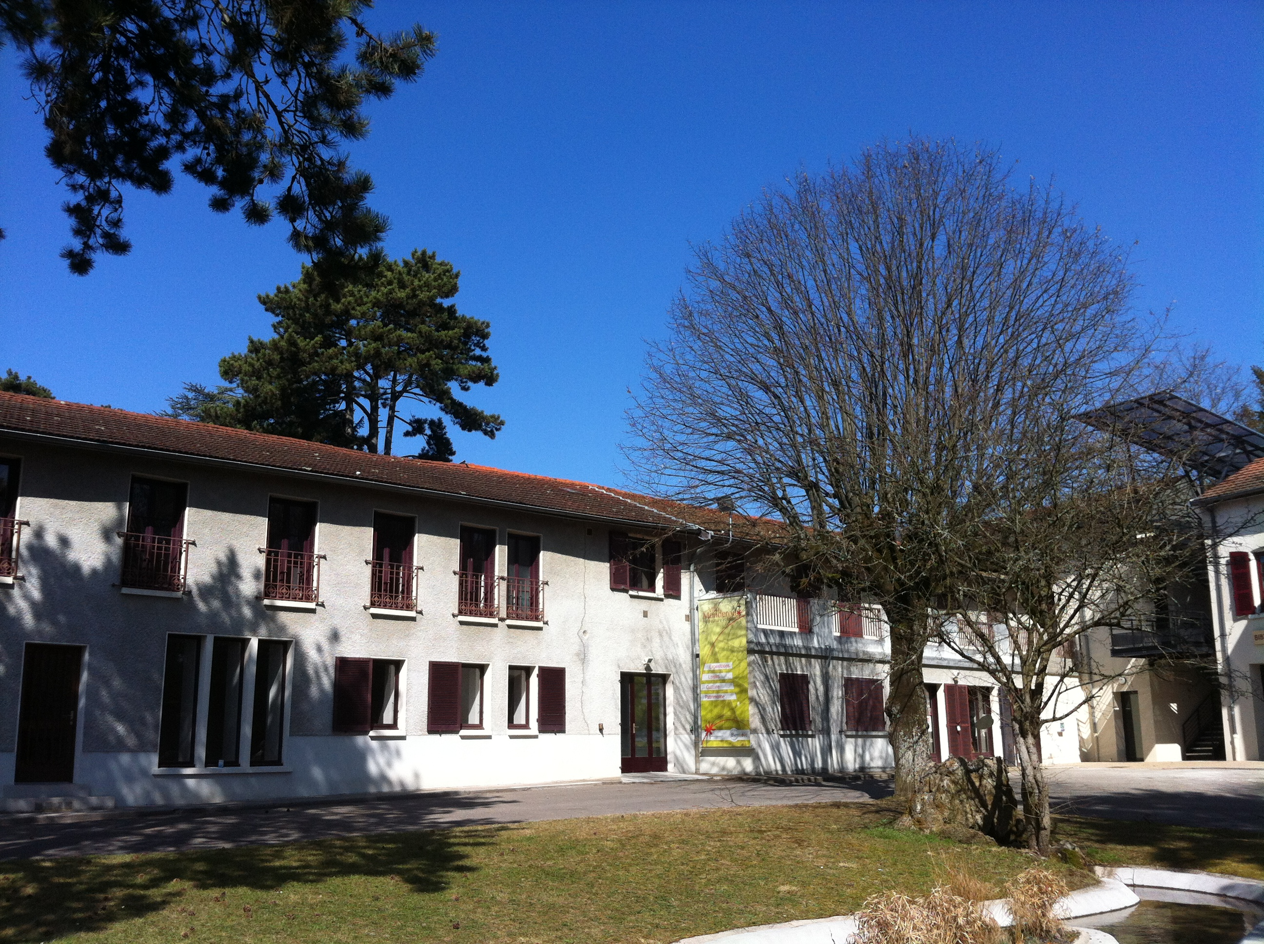 Villa Monderoux (Beynost).